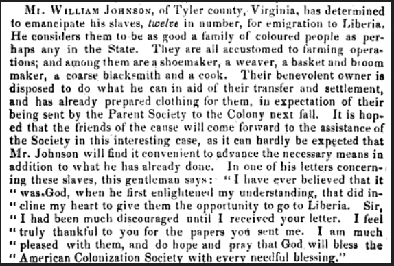 A clipping from the African Repository published in 1837 describing the efforts of William Johnson of Tyler County, now in West Virginia, to settle his former slaves in Liberia.